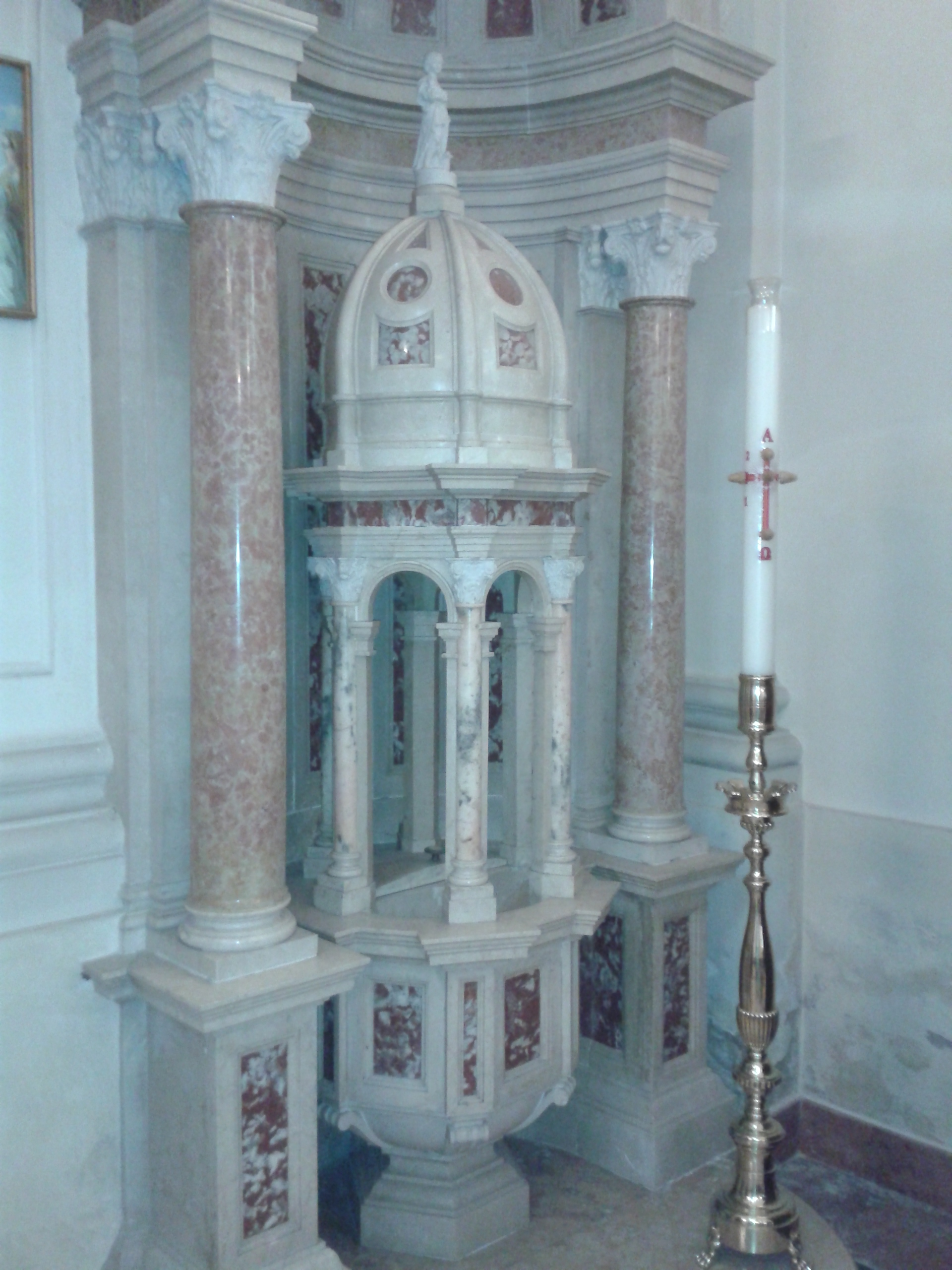 Battistero della Chiesa di San Giovanni Battista a Cappella di Scorzè